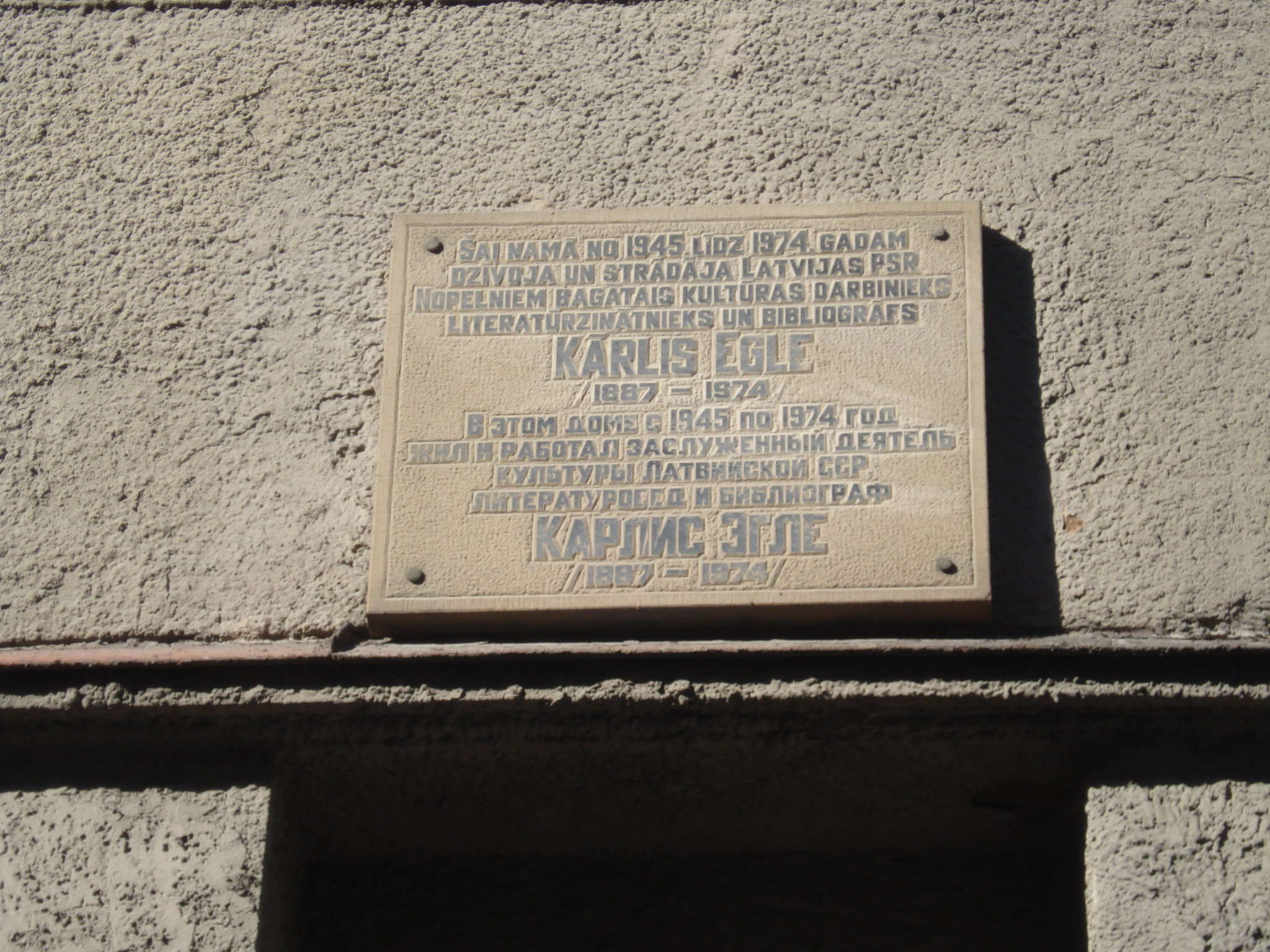 Plaque in memory of Latvian bibliograph Kārlis Egle (1887–1974), Miera street, Riga